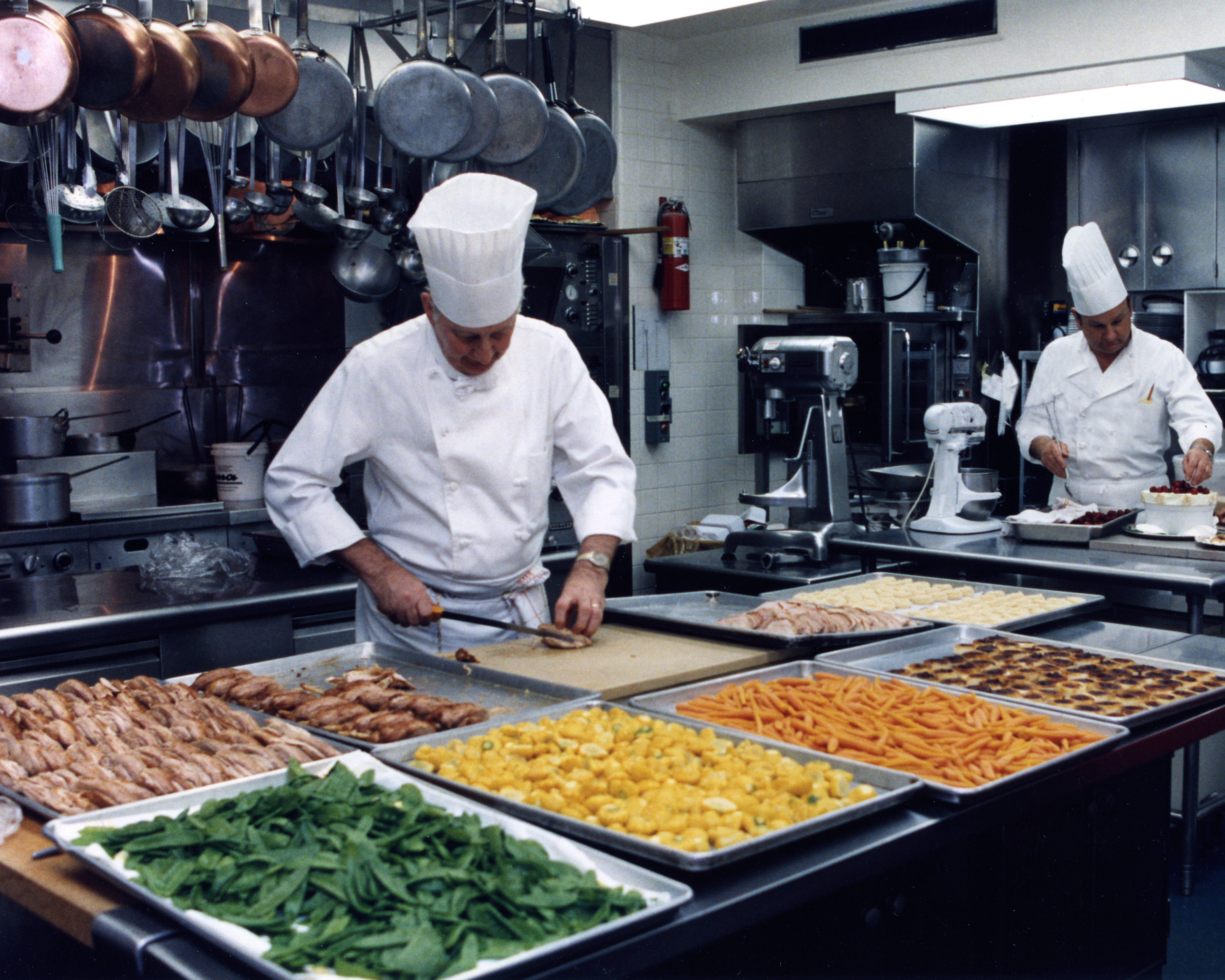 White House Executive Chef Hans Raffert (left) and White House Pastry Chef Roland Mesnier prepare for the state dinner for President and Mrs. Aylwin of Chile, on May 13, 1992.